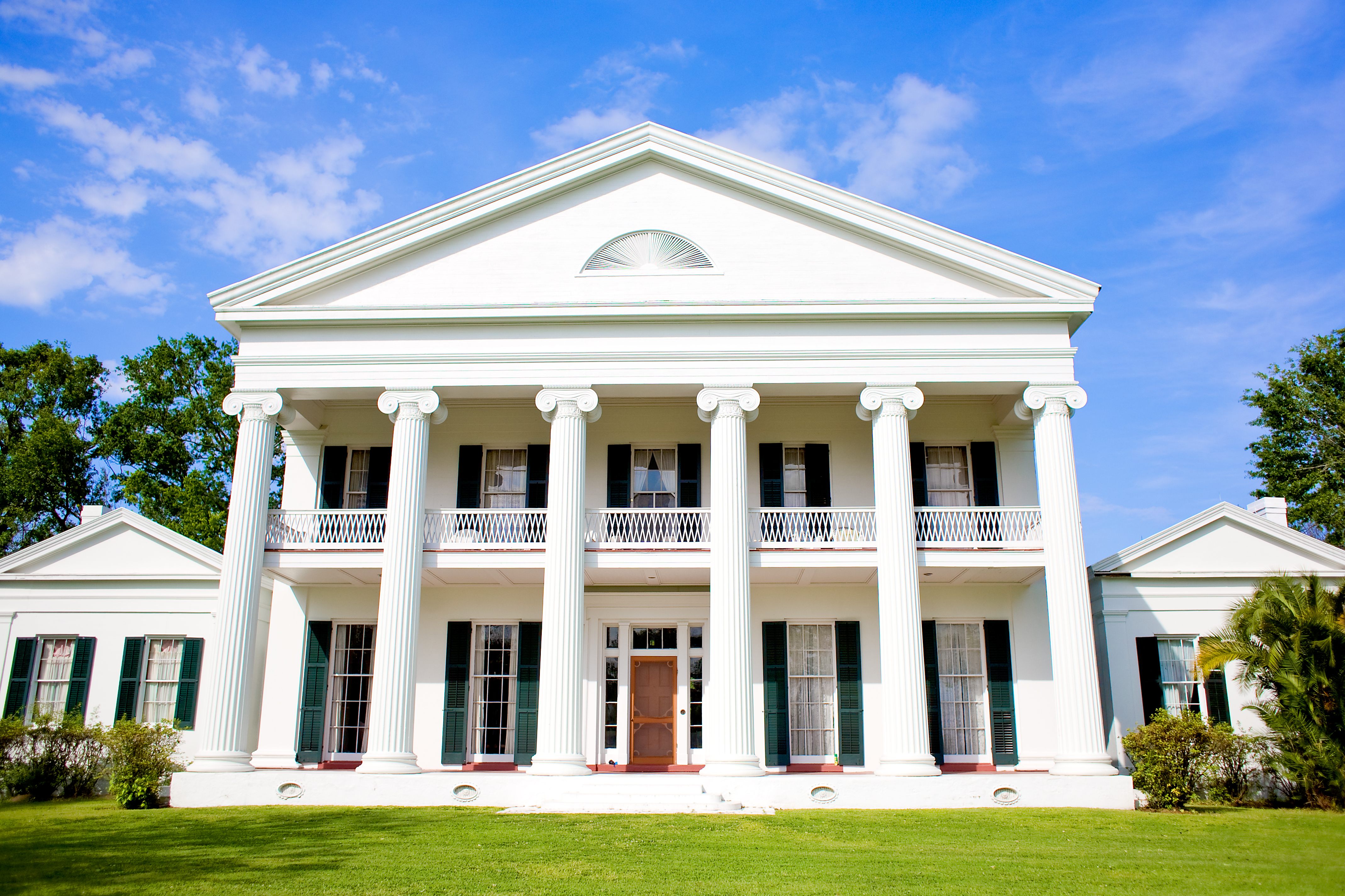 Front of the Madewood Plantation House, located along Louisiana Highway 308 east of Napoleonville in Assumption Parish, Louisiana, United States. Built in 1845, it is a National Historic Landmark. Today, the house is a bed and breakfast.